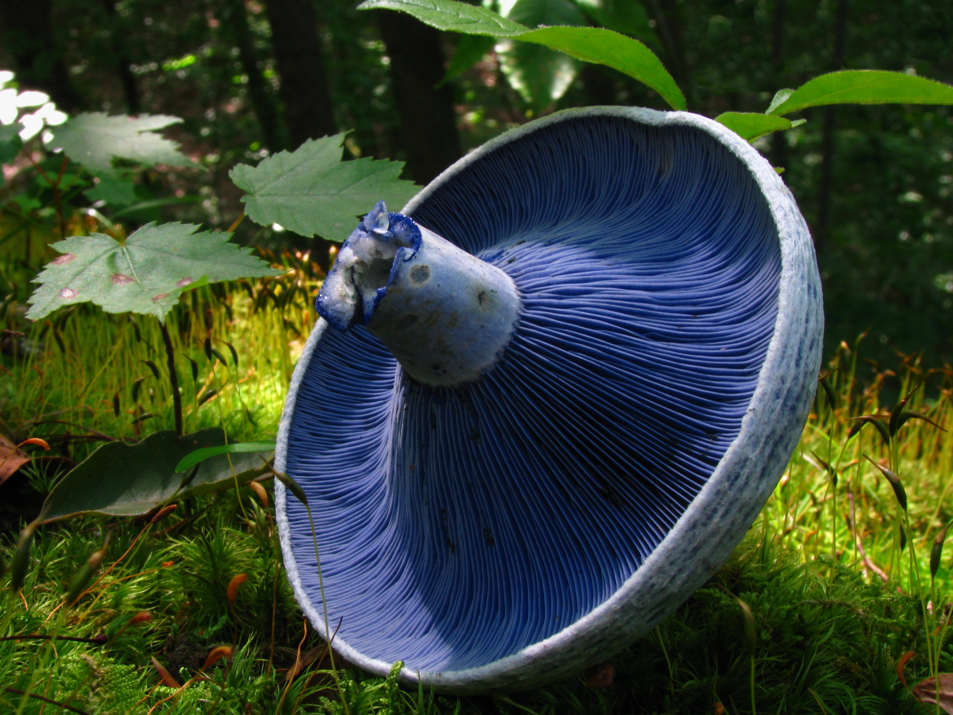 The "indigo Lactarius", species Lactarius indigo (Schwein.) Fr. Specimen photographed in Strouds Run State Park, Athens, Ohio, USA.